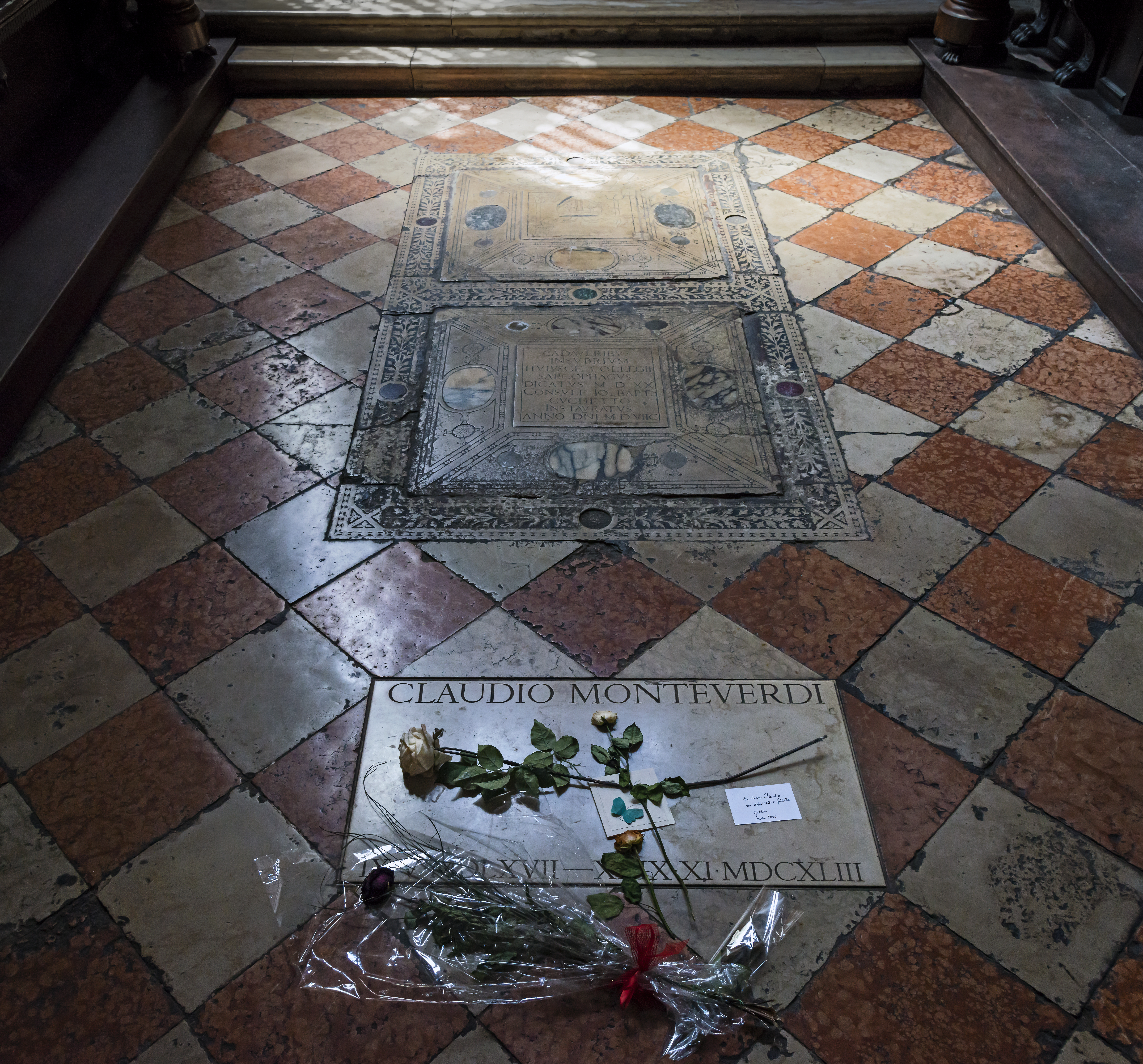 The Basilica di Santa Maria Gloriosa dei Frari. Cappella dei milanesi (Chapel of the Milanese). The tomb of Monteverdi who died in Venice in 1643.